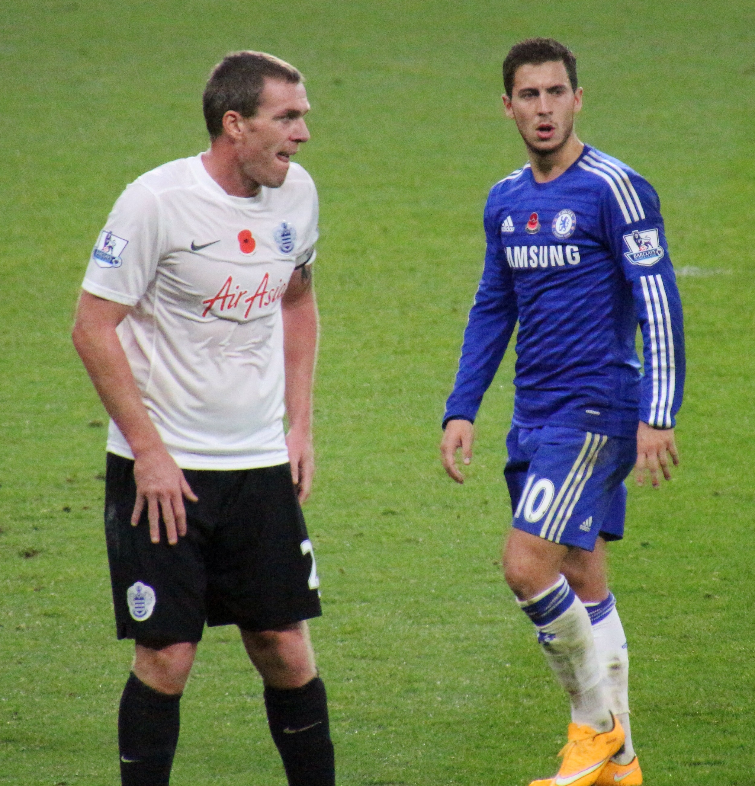 Chelsea 2 QPR 1 Premier League match between Chelsea and Queens Park Rangers at Stamford Bridge on 1 November 2014.